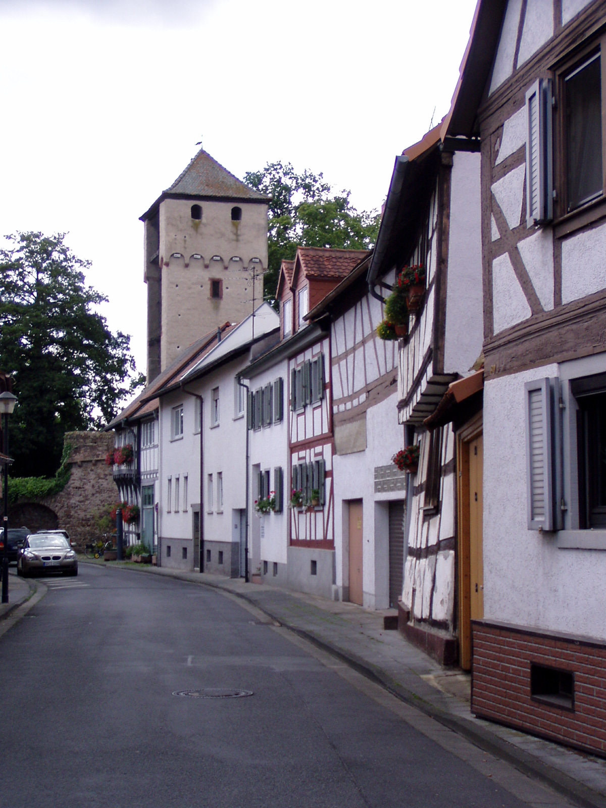 At the Witches tower in Babenhausen